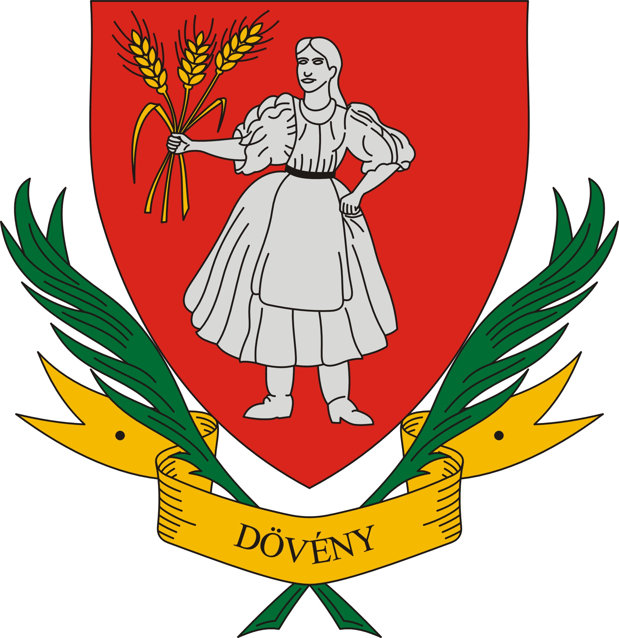 Coat of arms of Dövény, Hungary